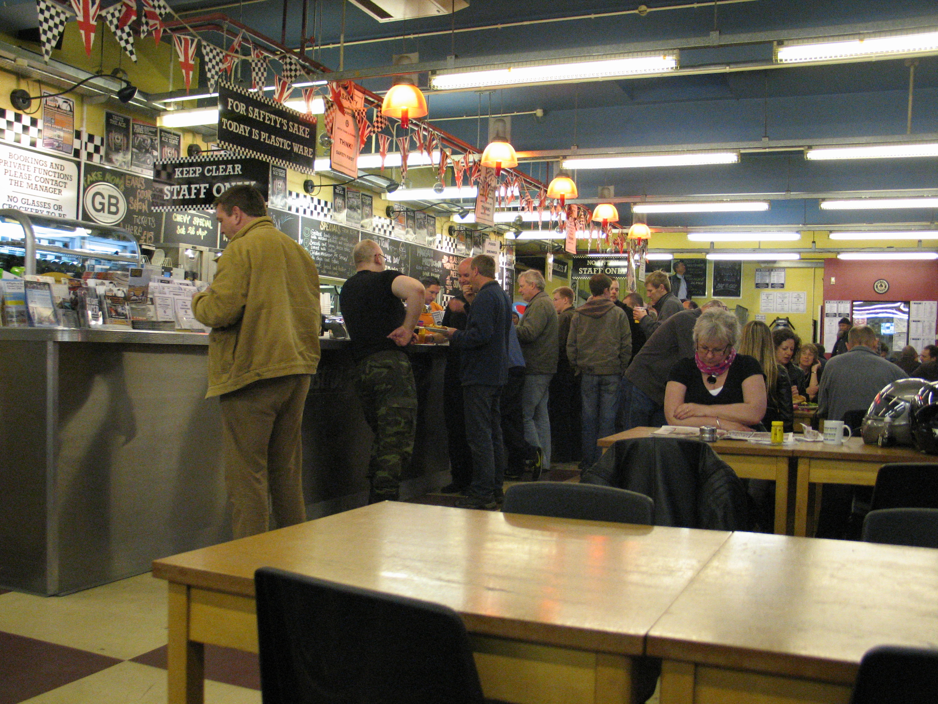 Ace Cafe London, inside